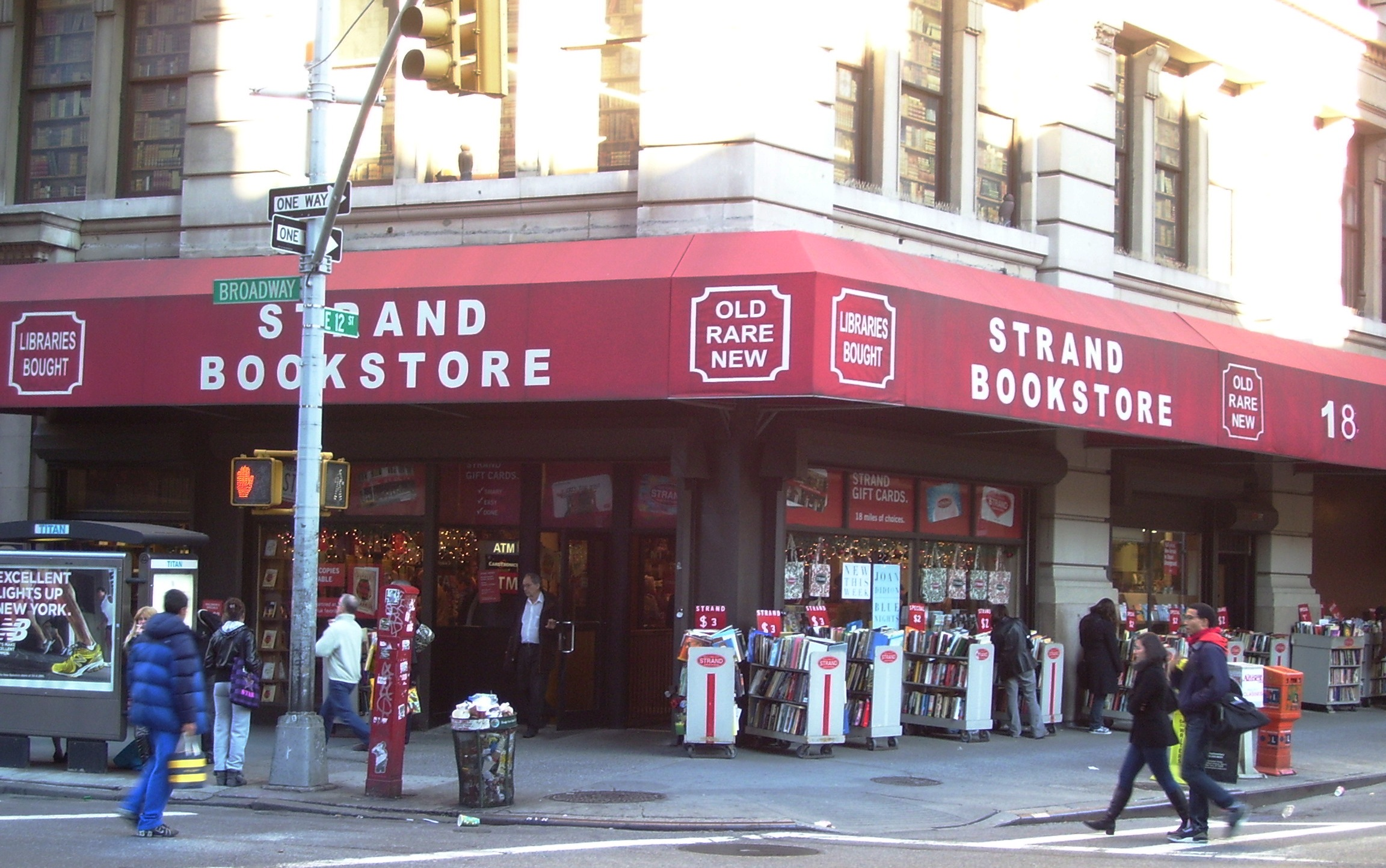 The Strand Bookstore, at 828 Broadway at the corner of East 12th Street in the East Village neighborhood of Manhattan, New York City, near Union Square, advertises that they have "18 Miles of Books". When it was founded in 1927 on nearby Fourth Avenue, it was one of 48 bookstores along what was called "Book Row", which began in the 1890s, but did not survive into the 1980s. (Source: "Strand History" at the Strand Bookstore website)